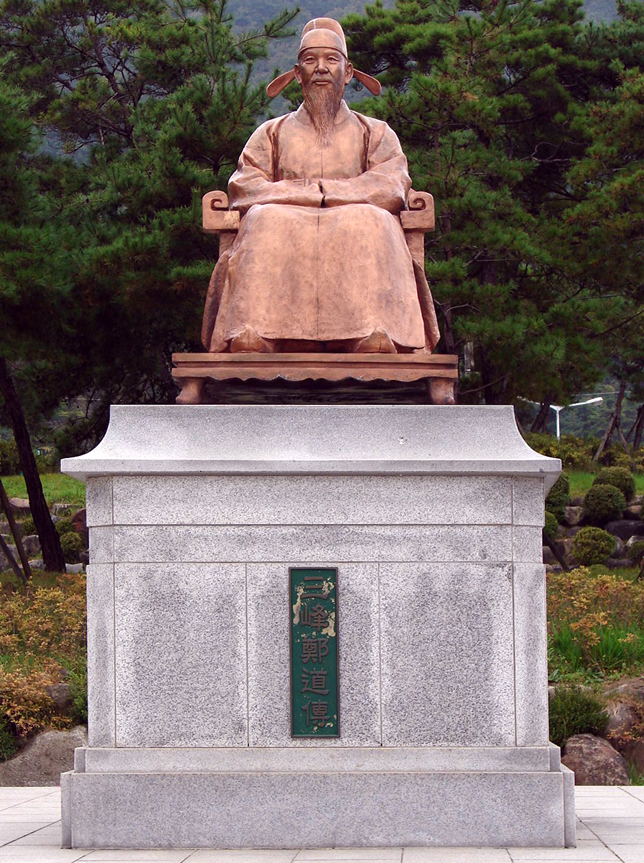 Statue of Sam Bong at Dodam Sambong recreation area.